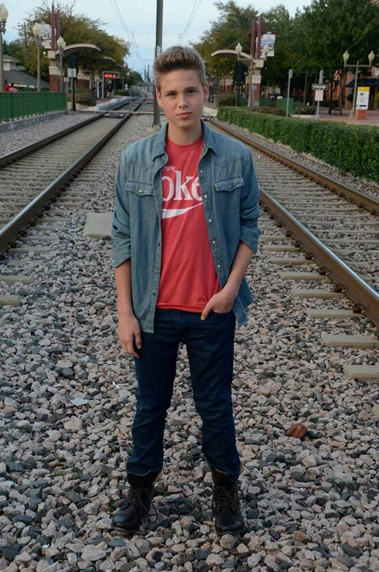 Colton Jacobson Shooting for his new Youtube Video on Frisco, TX.